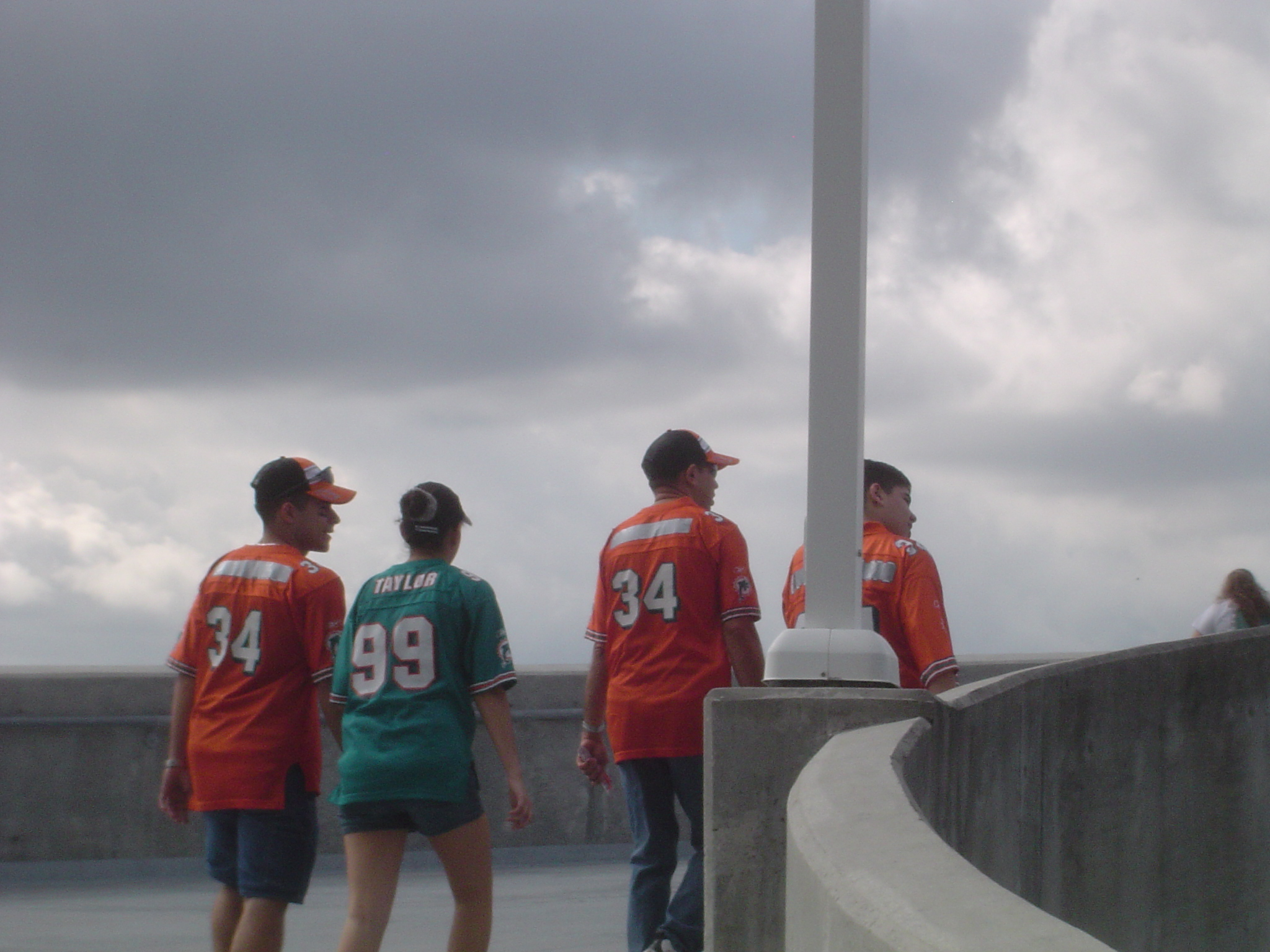 Miami Dolphins fans, displeased with Ricky Williams' drug-related suspension and subsequent retirement from the NFL in 2004, block out his name on their jerseys. Picture from December 5, 2004.